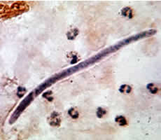 Trichinella spiralis larvae in peripheral blood.